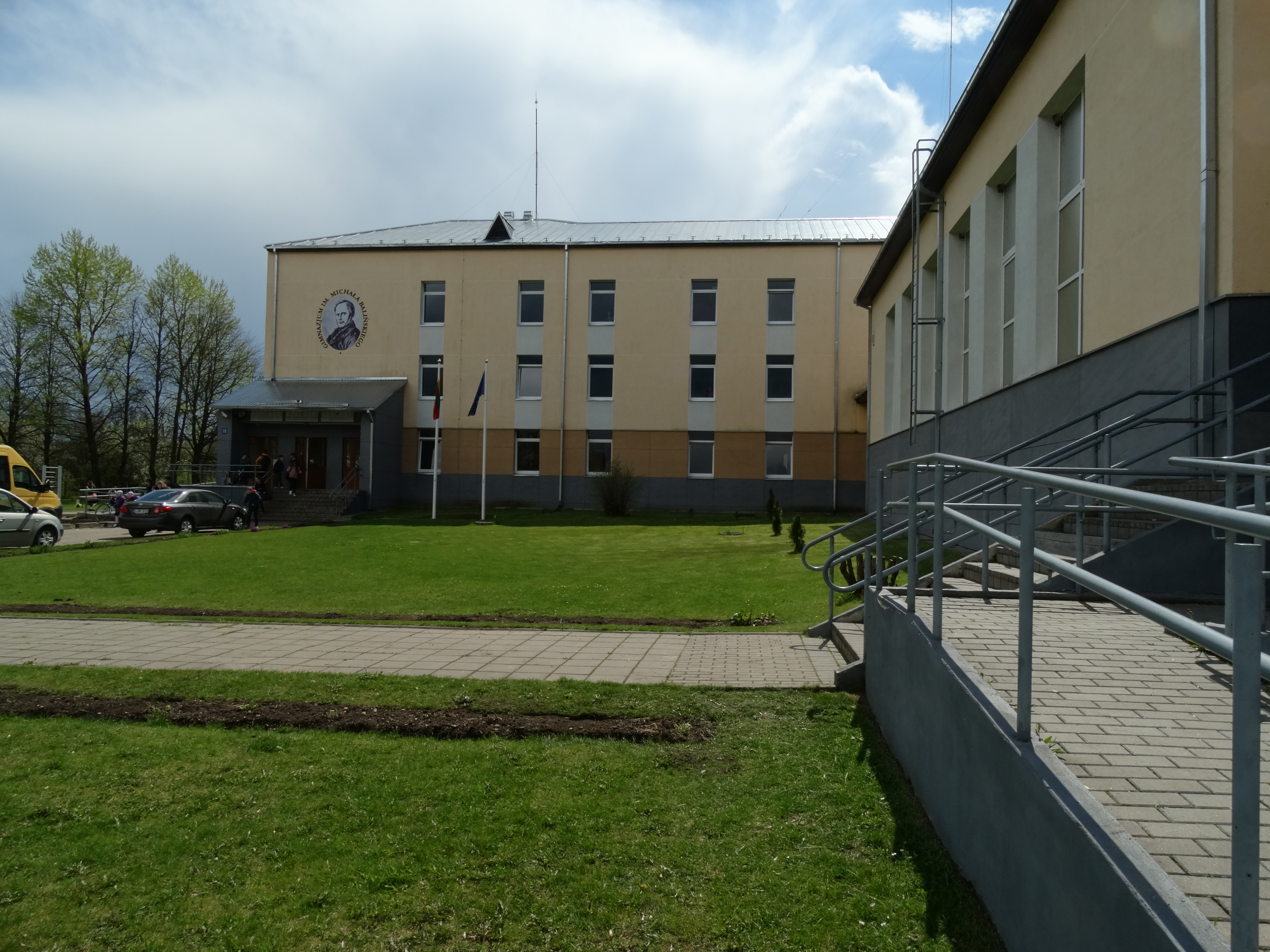 Mykolas Balinskis Gymnasium, Jašiūnai, Šalčininkai District, Lithuania